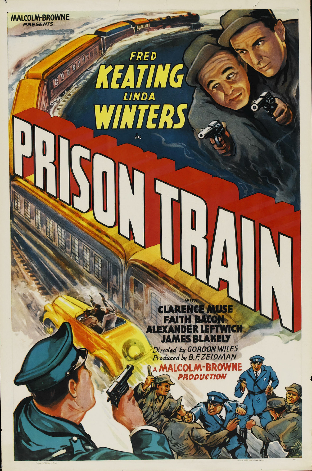 Poster for the 1938 film Prison Train. There are no copyright marks on the poster. At lower left is Country of Origin USA. At lower right is Morgan Litho Corp, Cleveland, O and 15031 (likely a print job number).